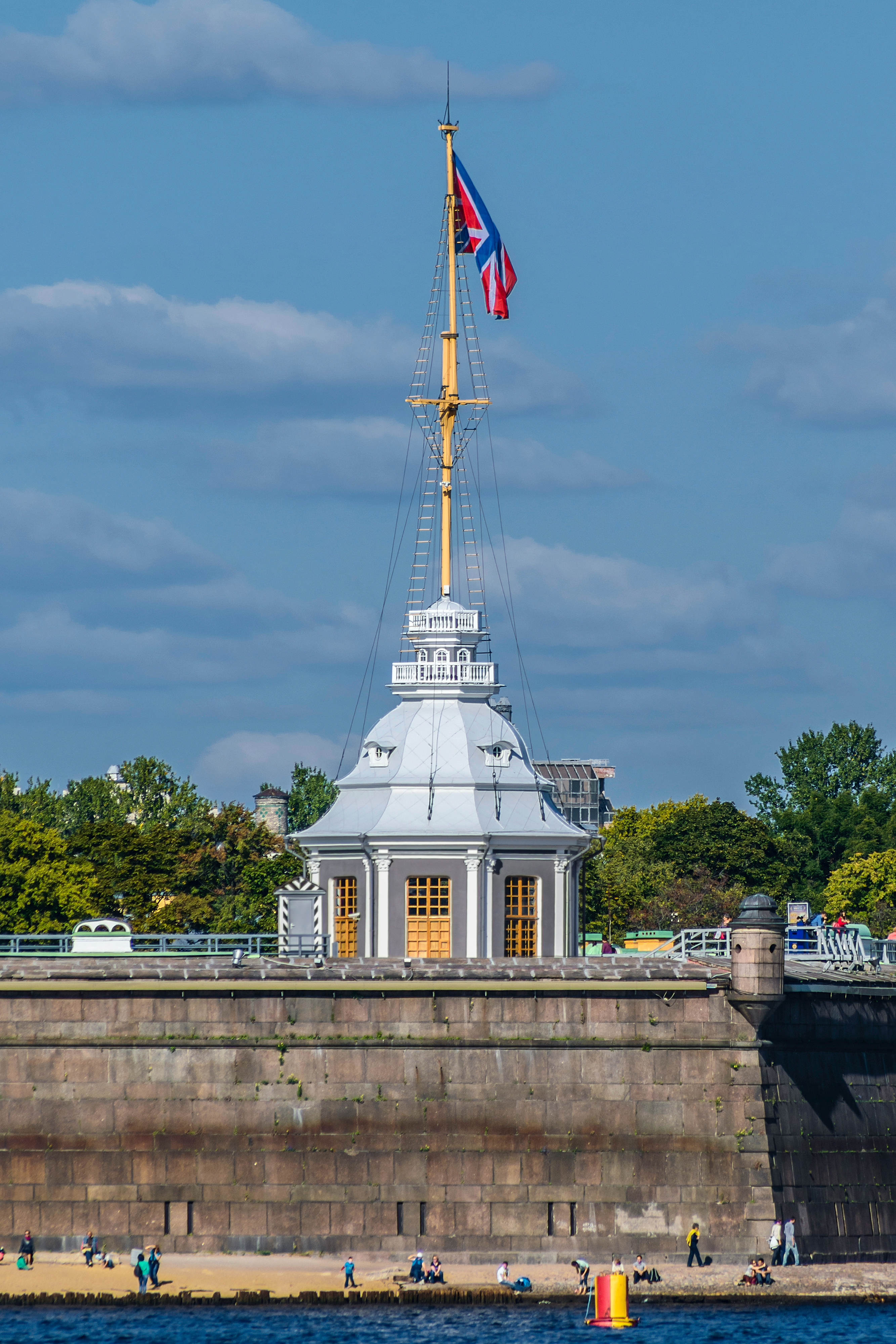 Flag Tower of Peter and Paul Fortress in Saint Petersburg